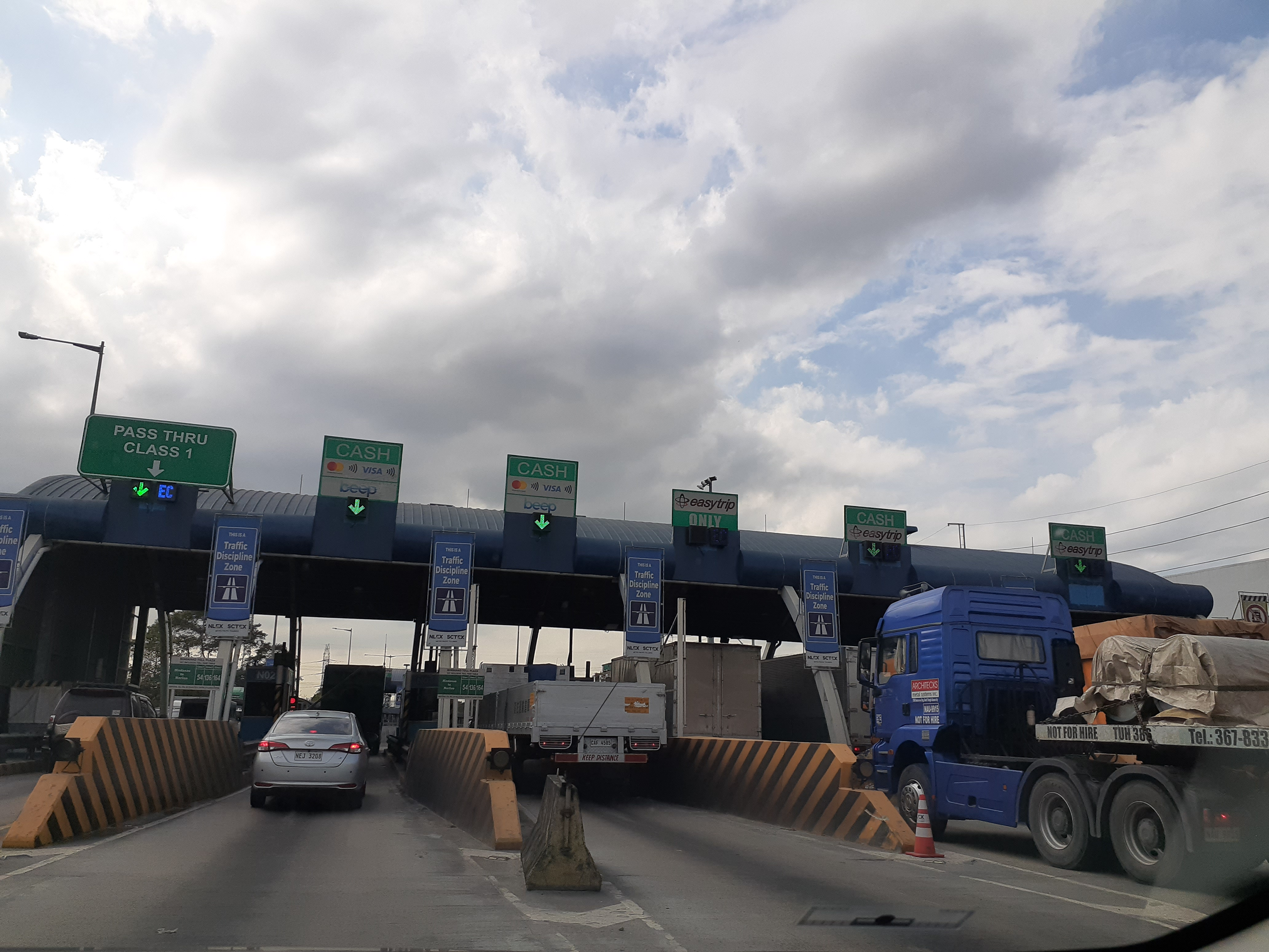 The toll plaza along the NLEx-Mindanao Avenue link of the North Luzon Expressway. Photo taken while on the lane towards the SMART Connect Interchange.